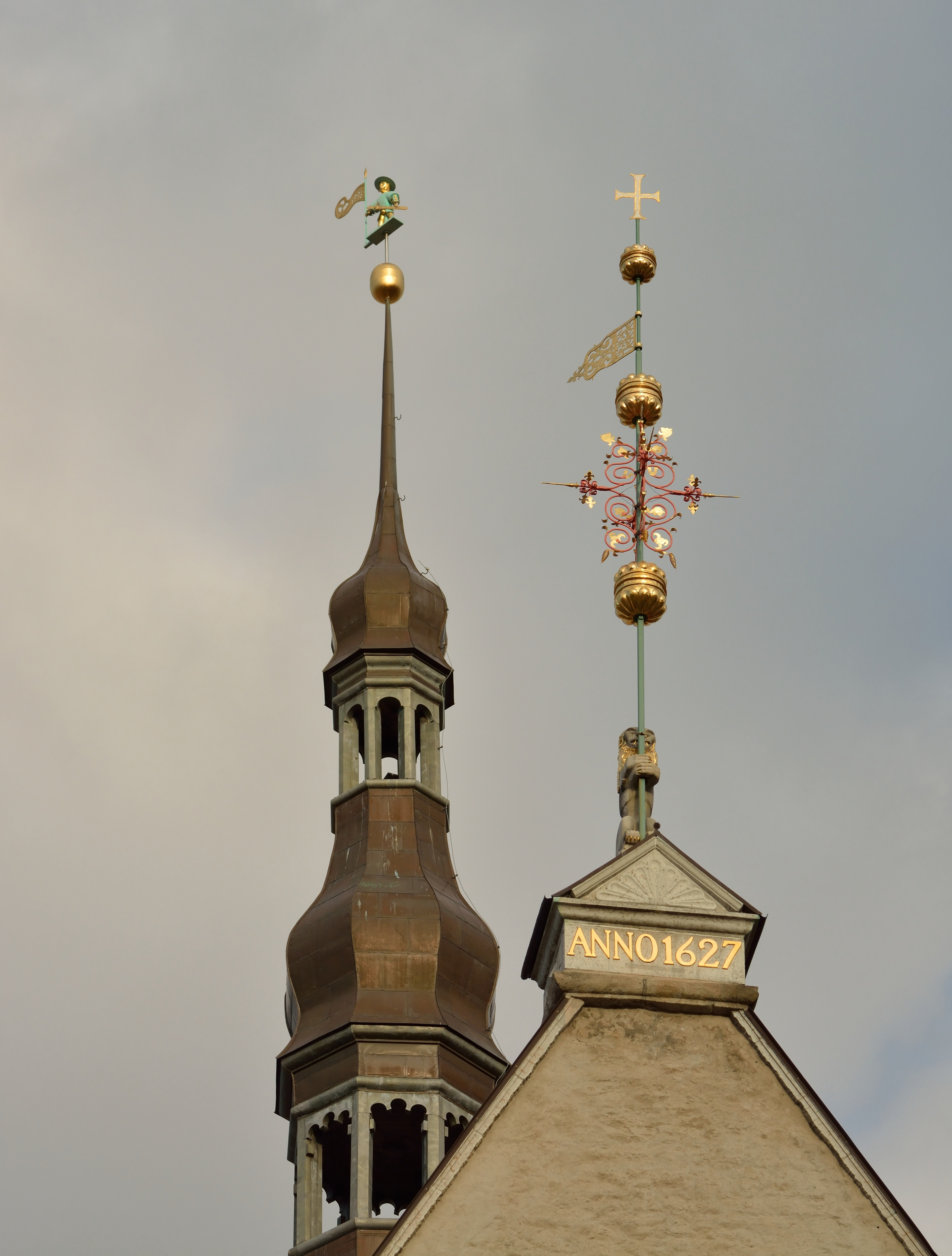 Weather vanes of Tallinn Town Hall